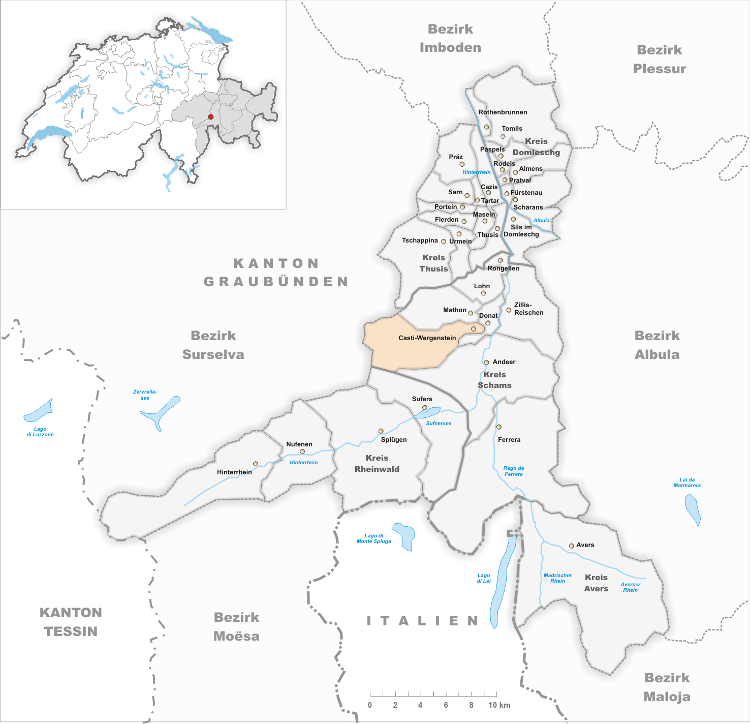 Municipality Casti-Wergenstein